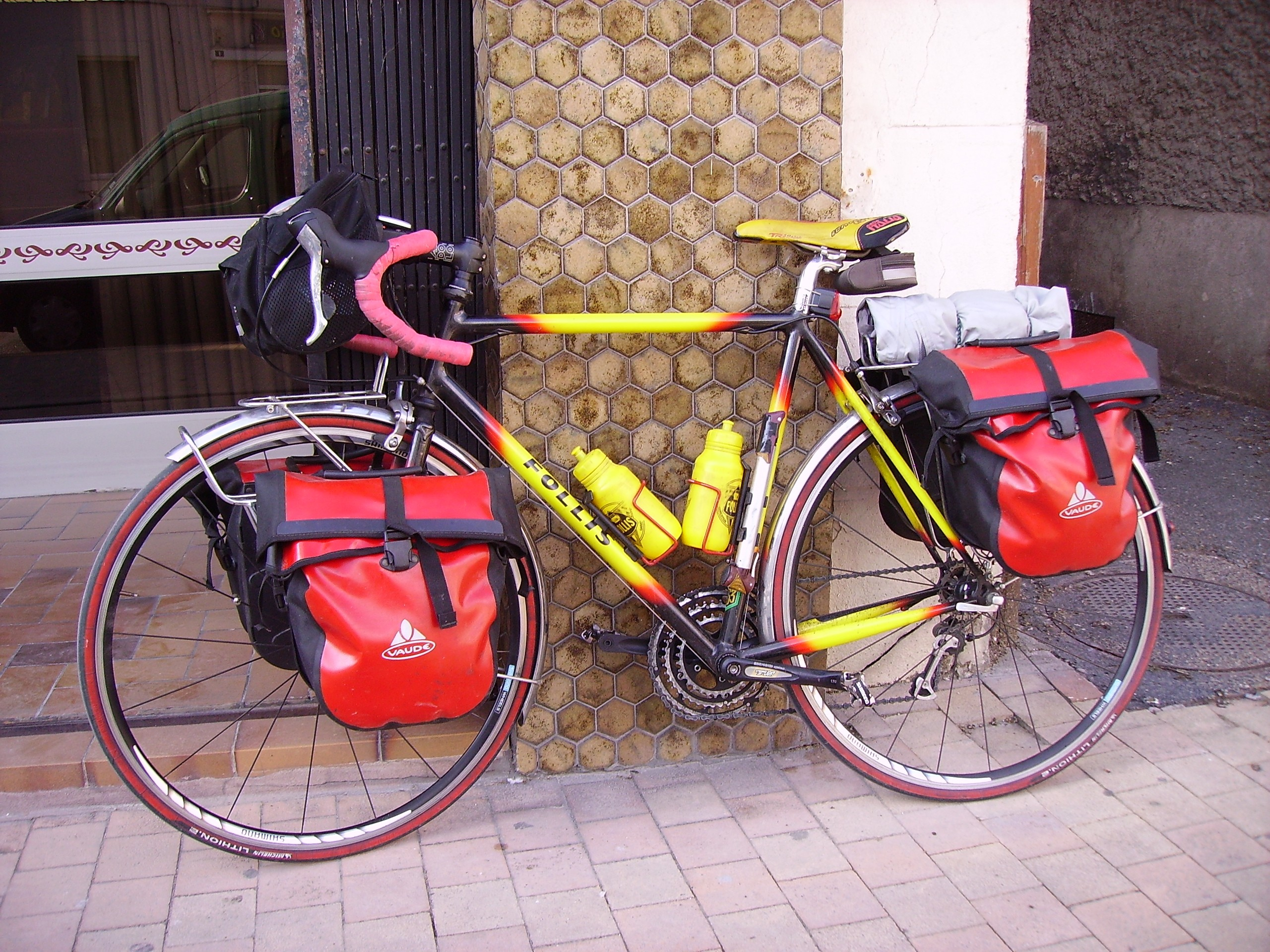 Loaded Follis bicycle.